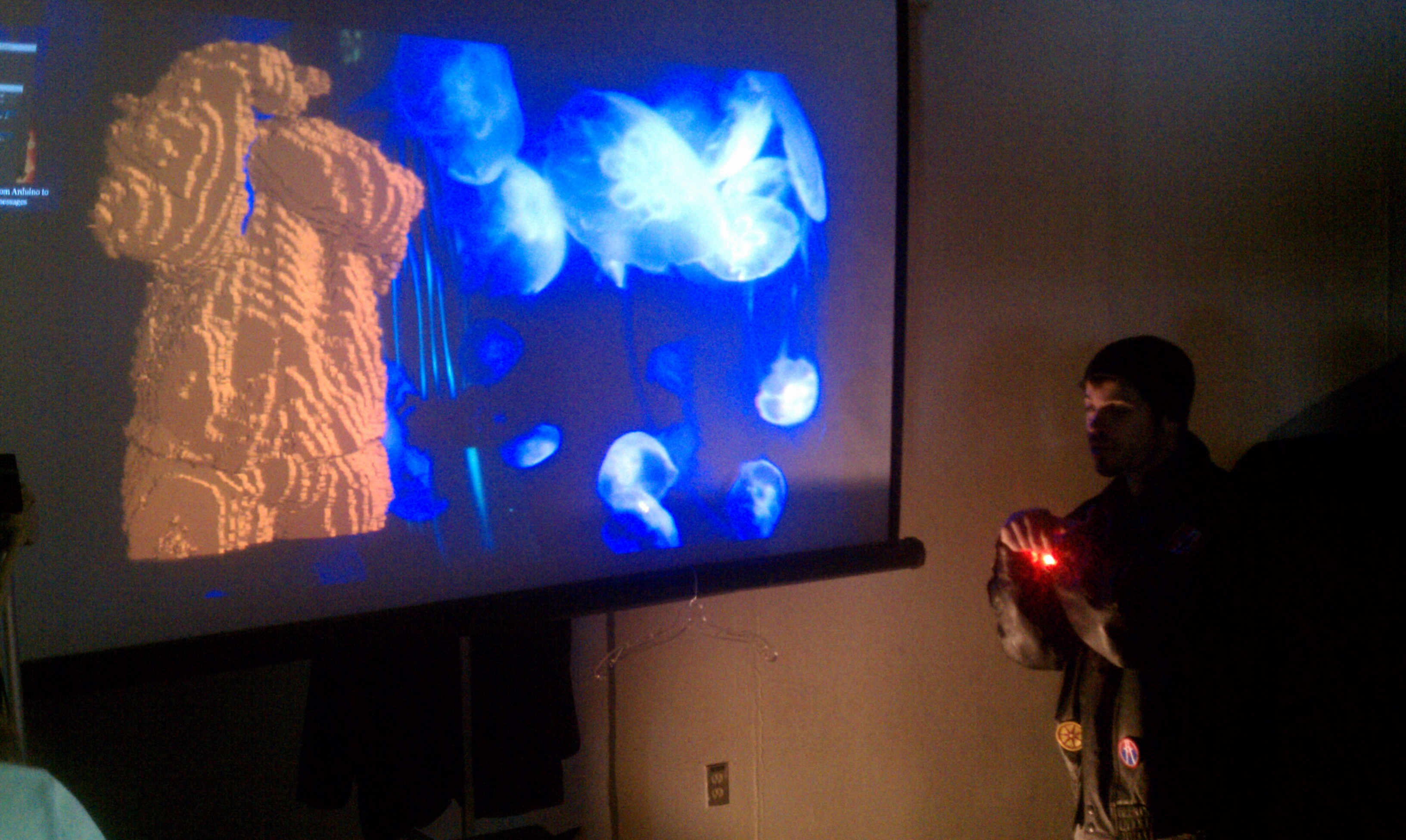 An attendant at Maker Faire 2011 wearing a jacket with bendable and pushable sensors hardwired into it, which allow the wearer to control music and video. The visualization on the left is of the wearer, and is provided through a Kinect.